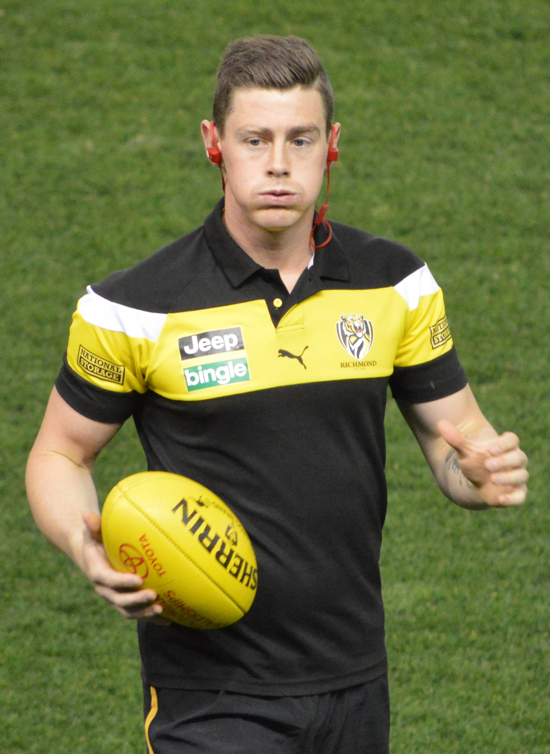 Sam Darley during the 2017 VFL grand final.